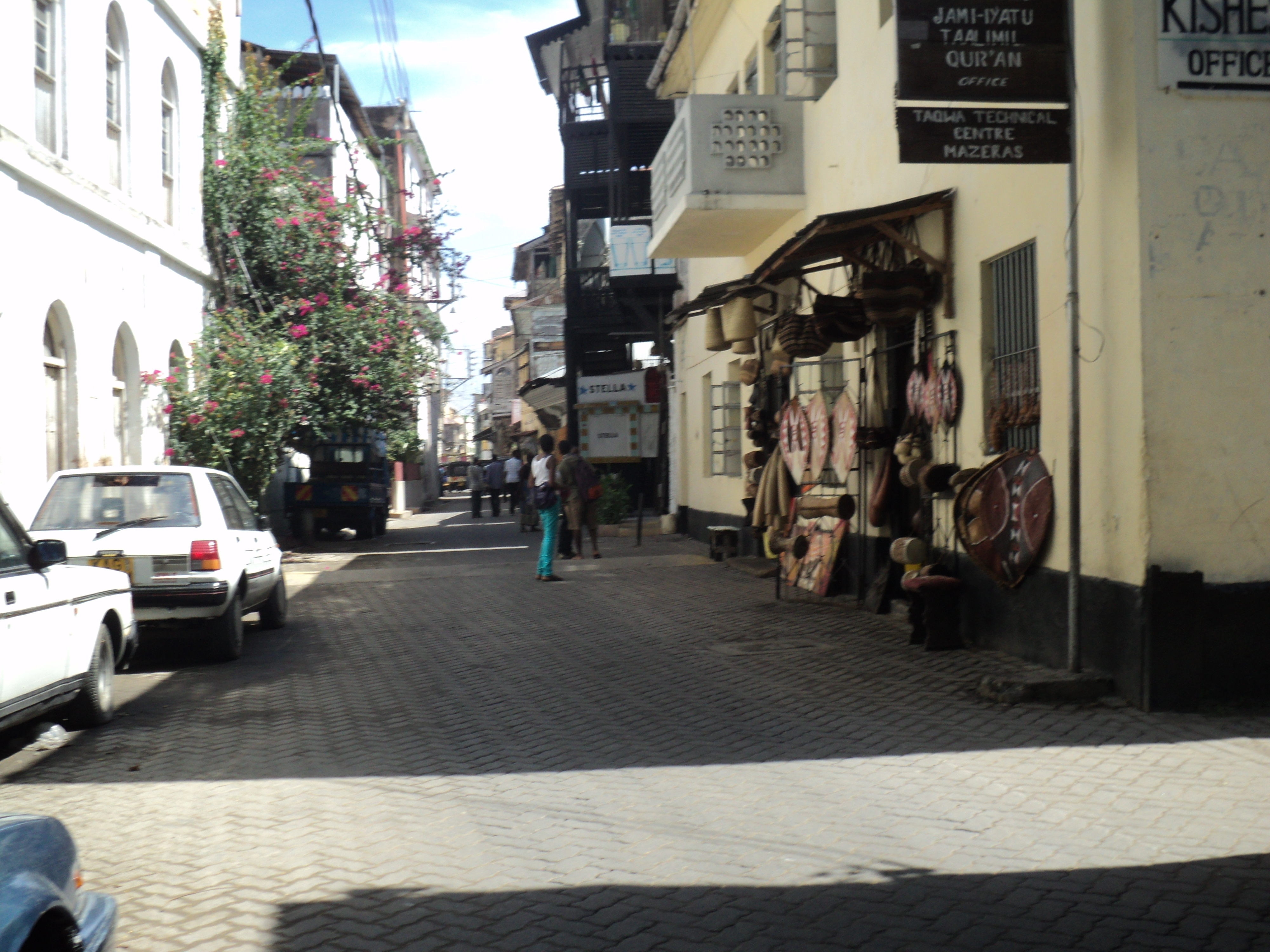 A street in the Old Town district of Mombasa near Fort Jesus Museum This is an image of music and dance from Kenya